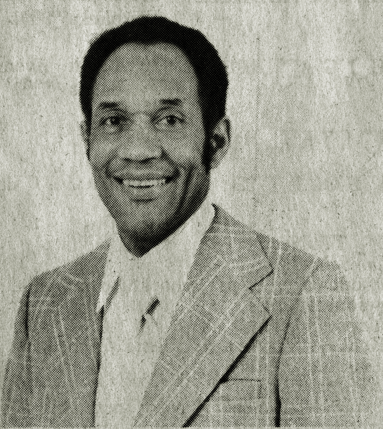 Selwyn George Carrol (1928–2010) was an American politician. Originally from northern Florida, Carrol came to Alaska through his service in the U.S. Army. He settled in Fairbanks, Alaska, where he worked for the Fairbanks North Star Borough School District for many years, as a counselor and later teacher. Carrol was elected to a single term in the Alaska House of Representatives in 1972 as a Republican, becoming the first of only two African-American Republicans in the history of the Alaska Legislature. Carrol moved to Hampton County, South Carolina in 1977, where he remained for the rest of his life and served as county auditor at one point.